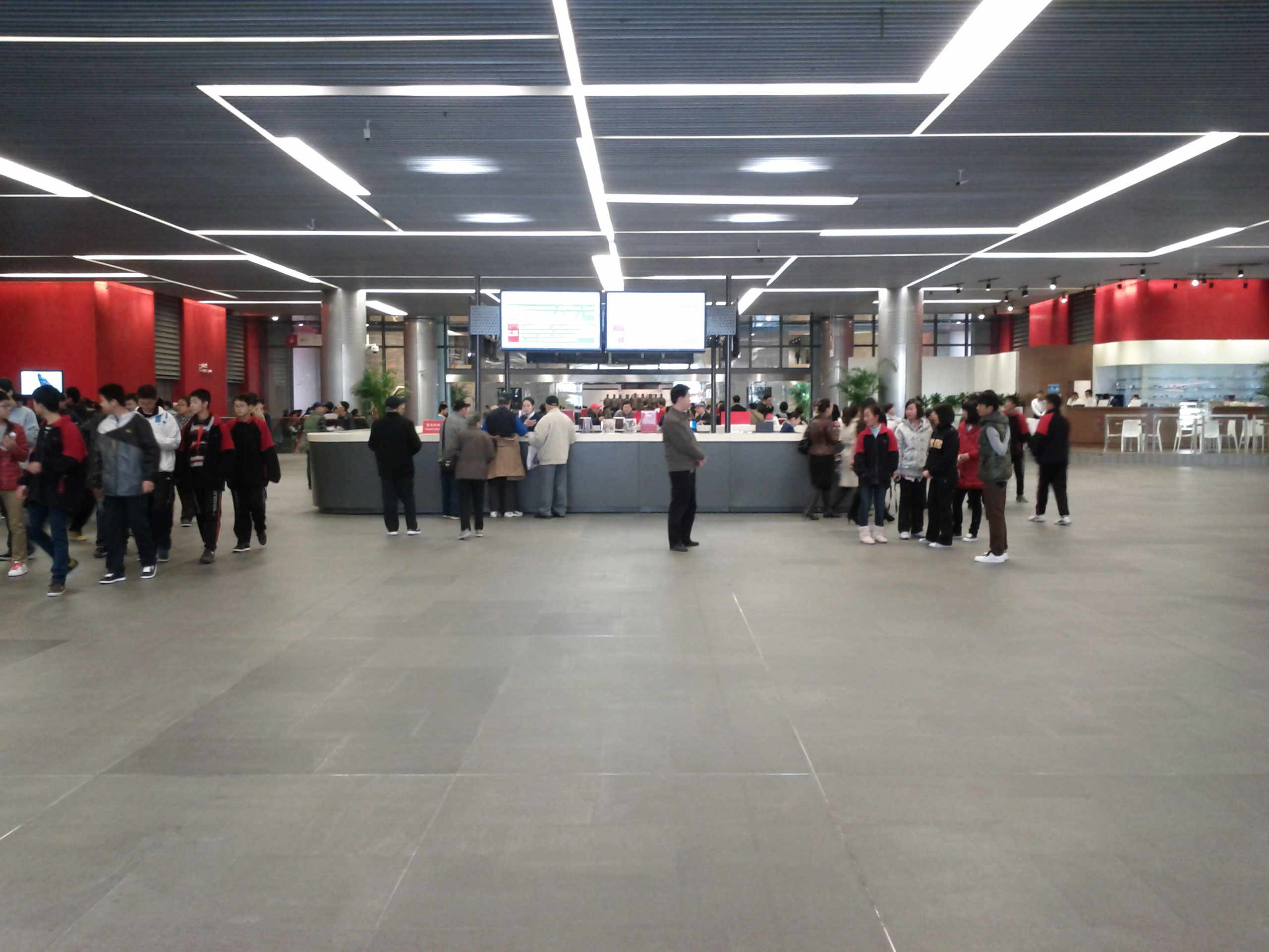 Inside the lobby looking at the information desk